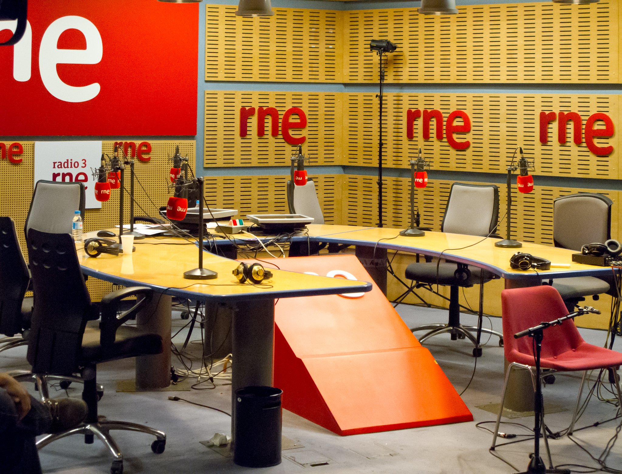 Radio studio of Radio Nacional de España (RNE) in Prado del Rey, Madrid, Spain.